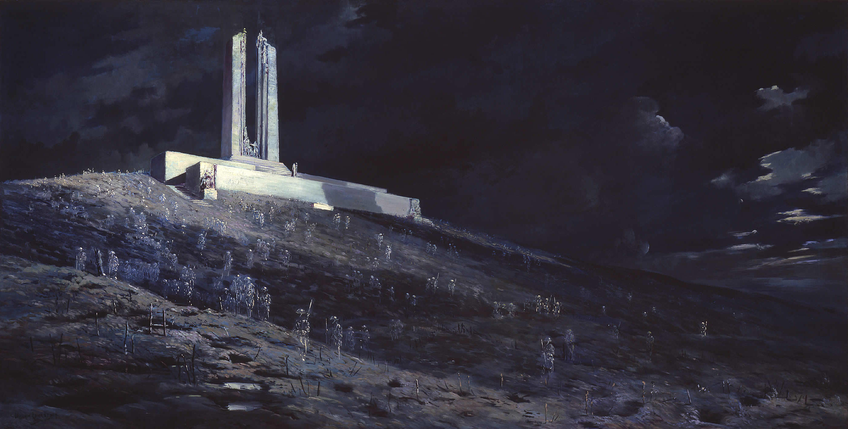 Ghosts of Vimy Ridge depicts ghosts of the Canadian Corps on Vimy Ridge surrounding the Canadian National Vimy Memorial.